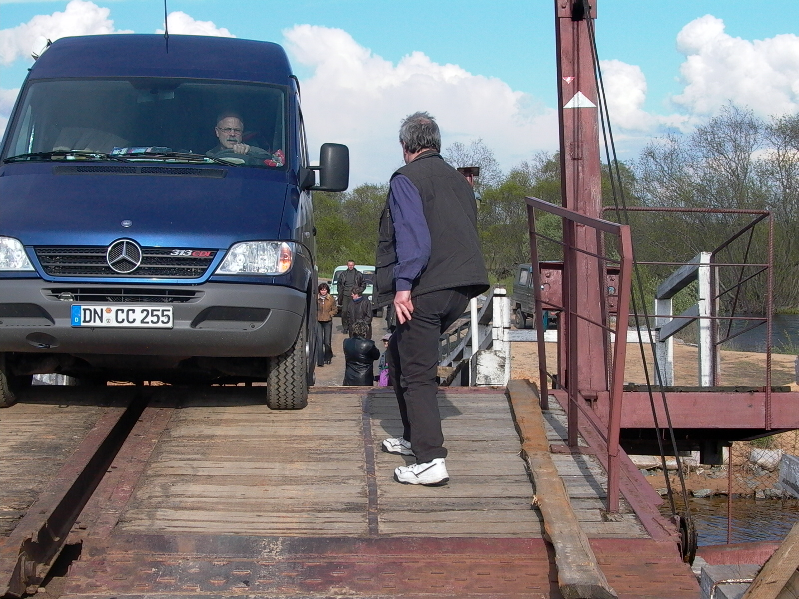 Author: Herbert Dederichs, Burkhard Heuel-Fabianek (Research Center Juelich (S)) Url: subject: New pontoon-bridge (built 2003/2004) over the river Soz (Сож) in eastern Belarus between the City of Korma (Karma) and Volincy